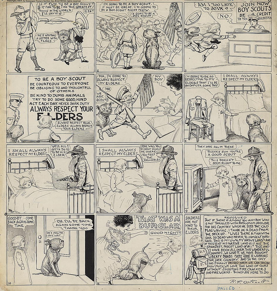 Buster Brown. Is it fun to be a Boy Scout? Is it fun to be? It's the greatest thing in the world. I'll say it is Richard Felton Outcault (January 14, 1863-September 25, 1928) Library of Congress Prints and Photographs Division Washington, D.C., 20540 USA